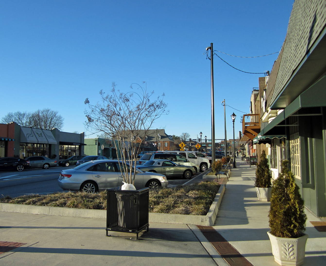 Photograph of Main Street Tucker, Georgia, 30084 United States facing north at 5:47 PM on January 22, 2014.